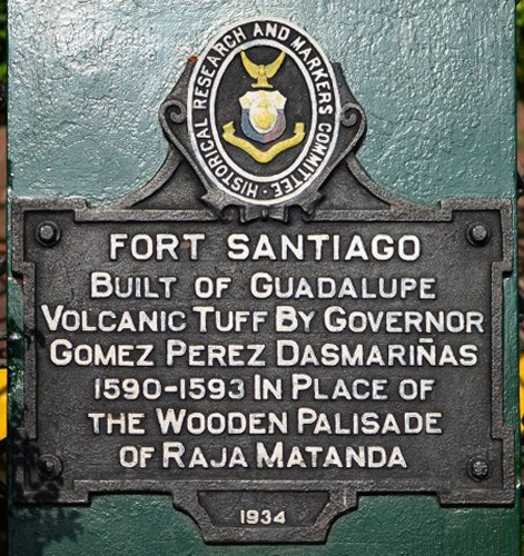 historical marker Fort Santiago